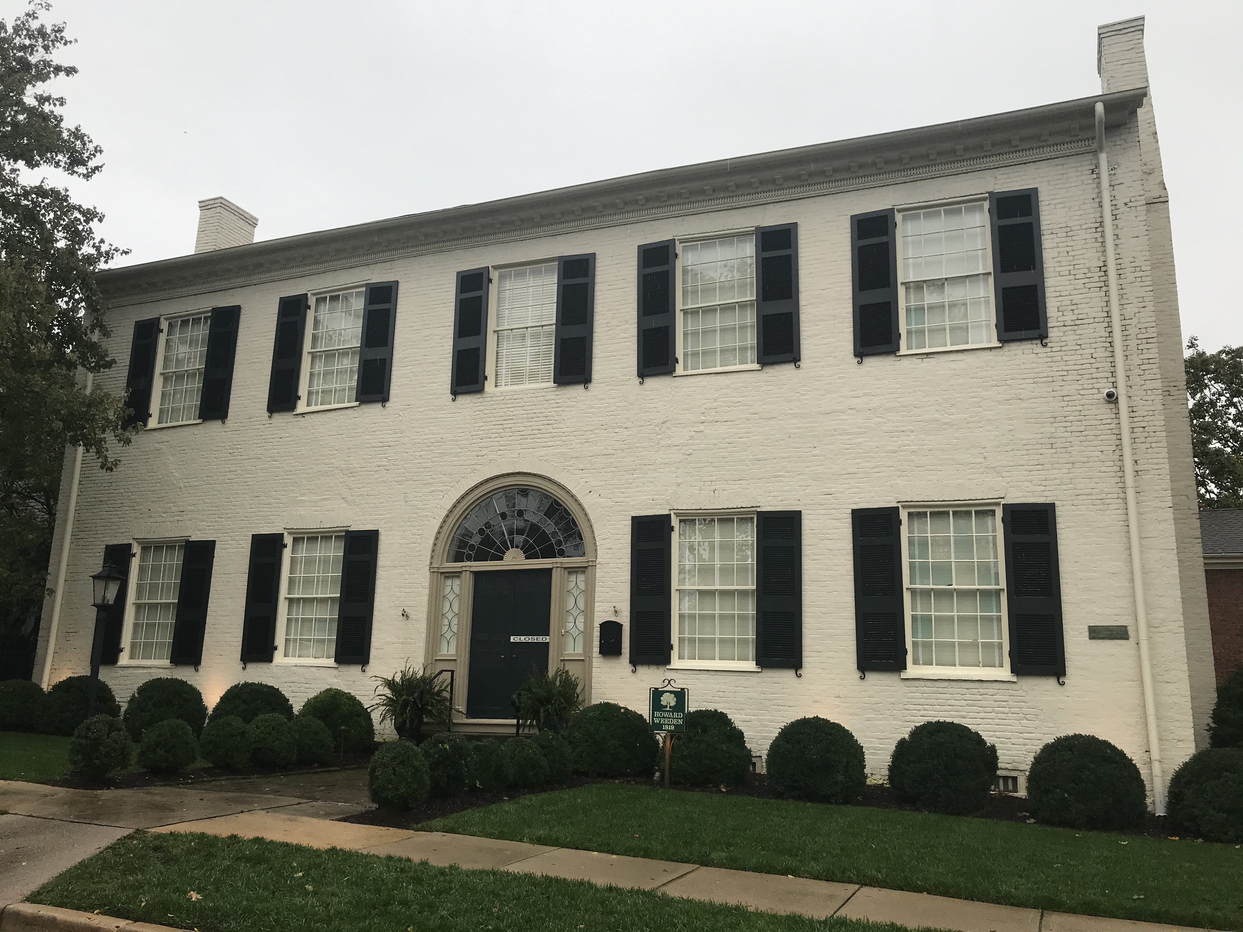 This is an image of the historic Weeden House in Huntsville, Alabama, an antebellum house built in 1819 and notably home to historic Huntsville artist Maria Howard Weeden. The home is now a museum.